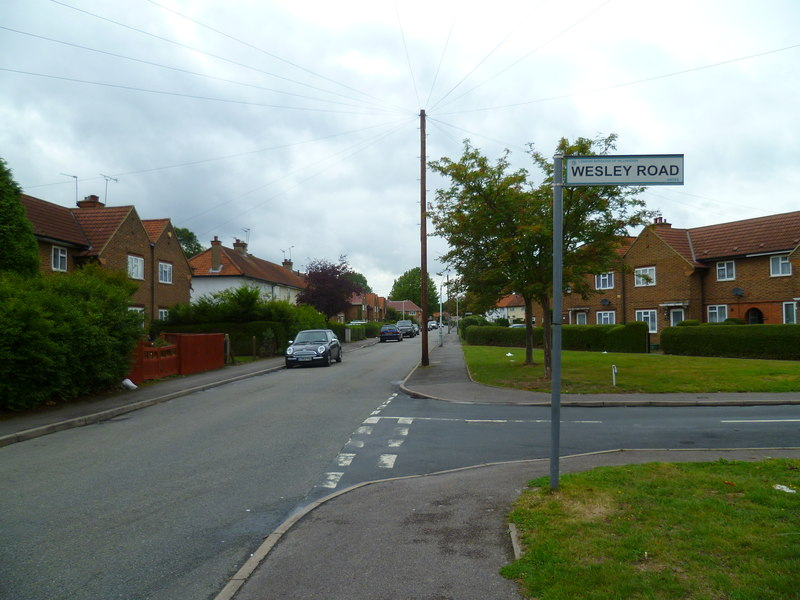 Looking west at the junction of Hesa and Wesley Roads